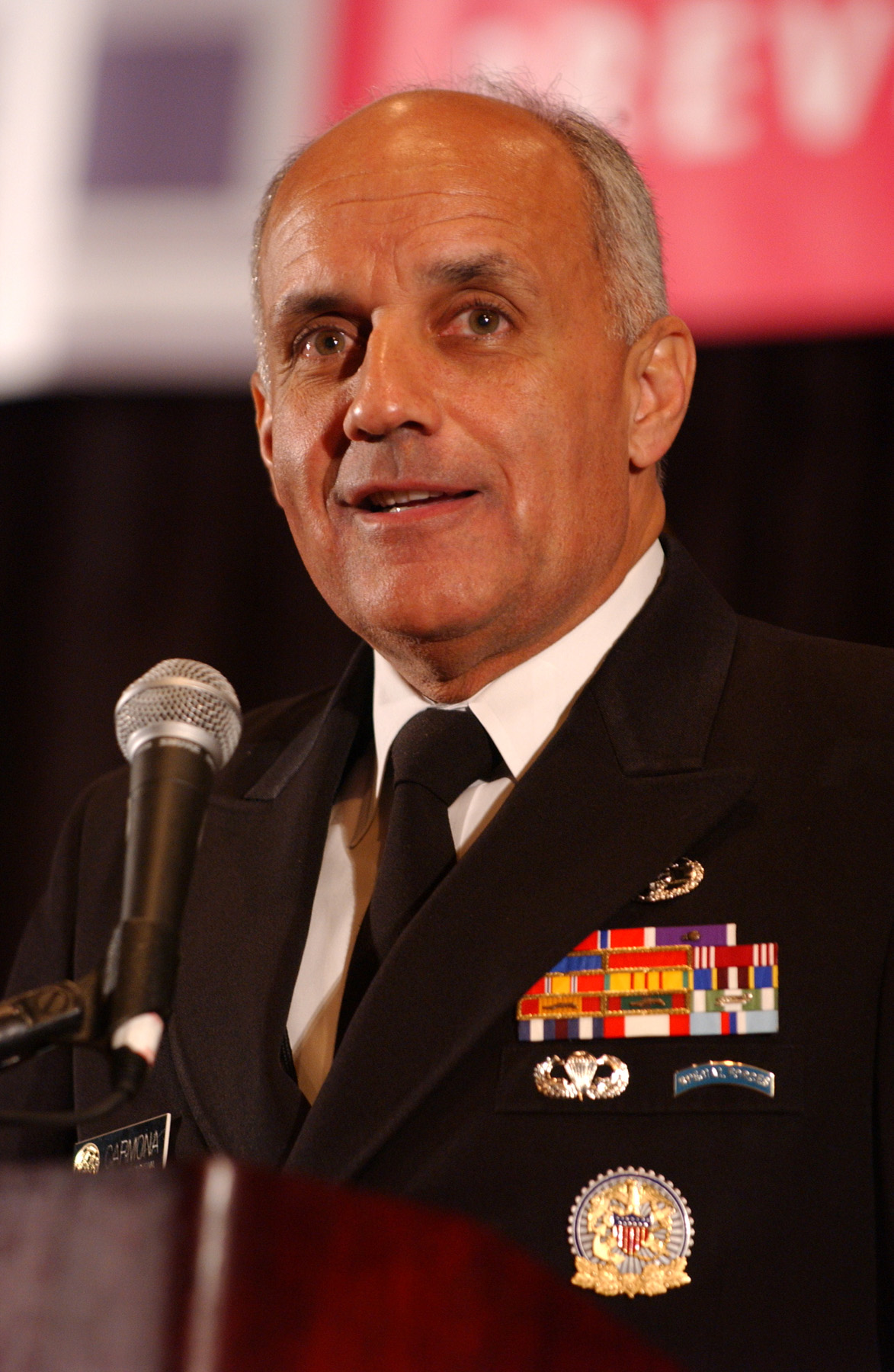 Vice Admiral Richard Carmona, USPHS17th Surgeon General of the United States andCommander, United States Public Health Service Commissioned Corps